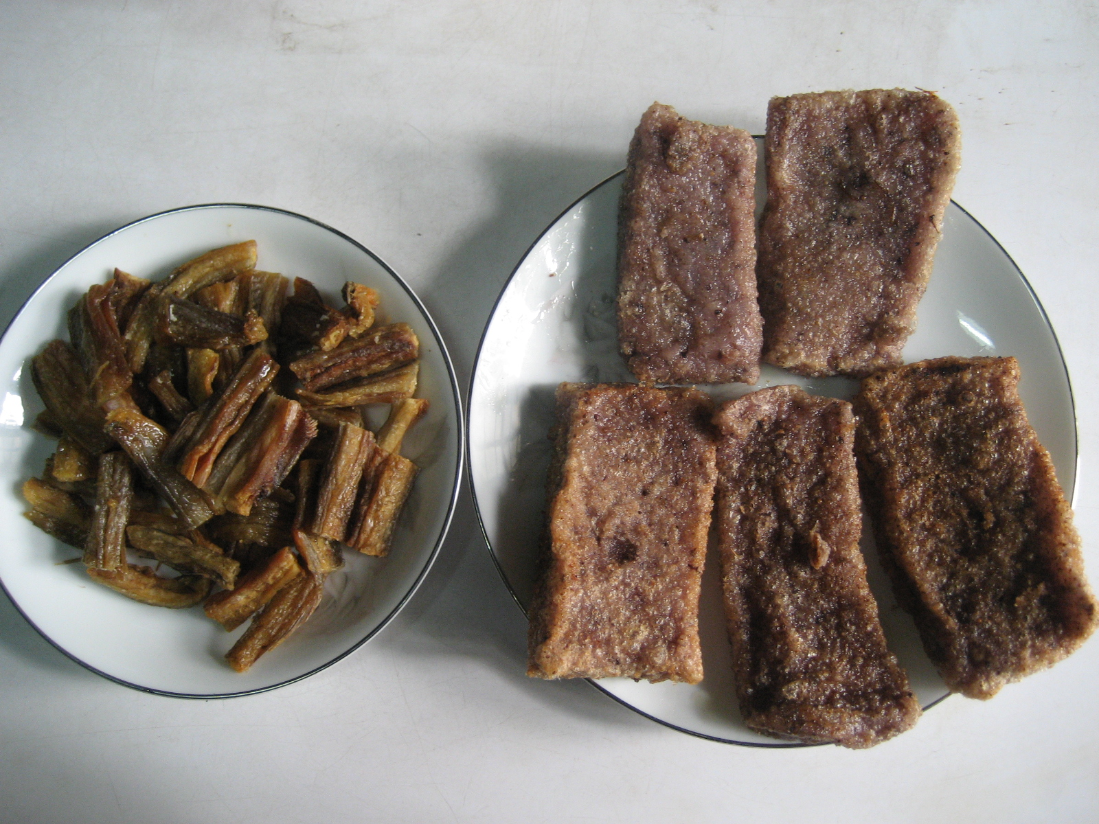 Hkaw bouk - dried cakes of ngacheik glutinous rice with Bombay duck, both fried.